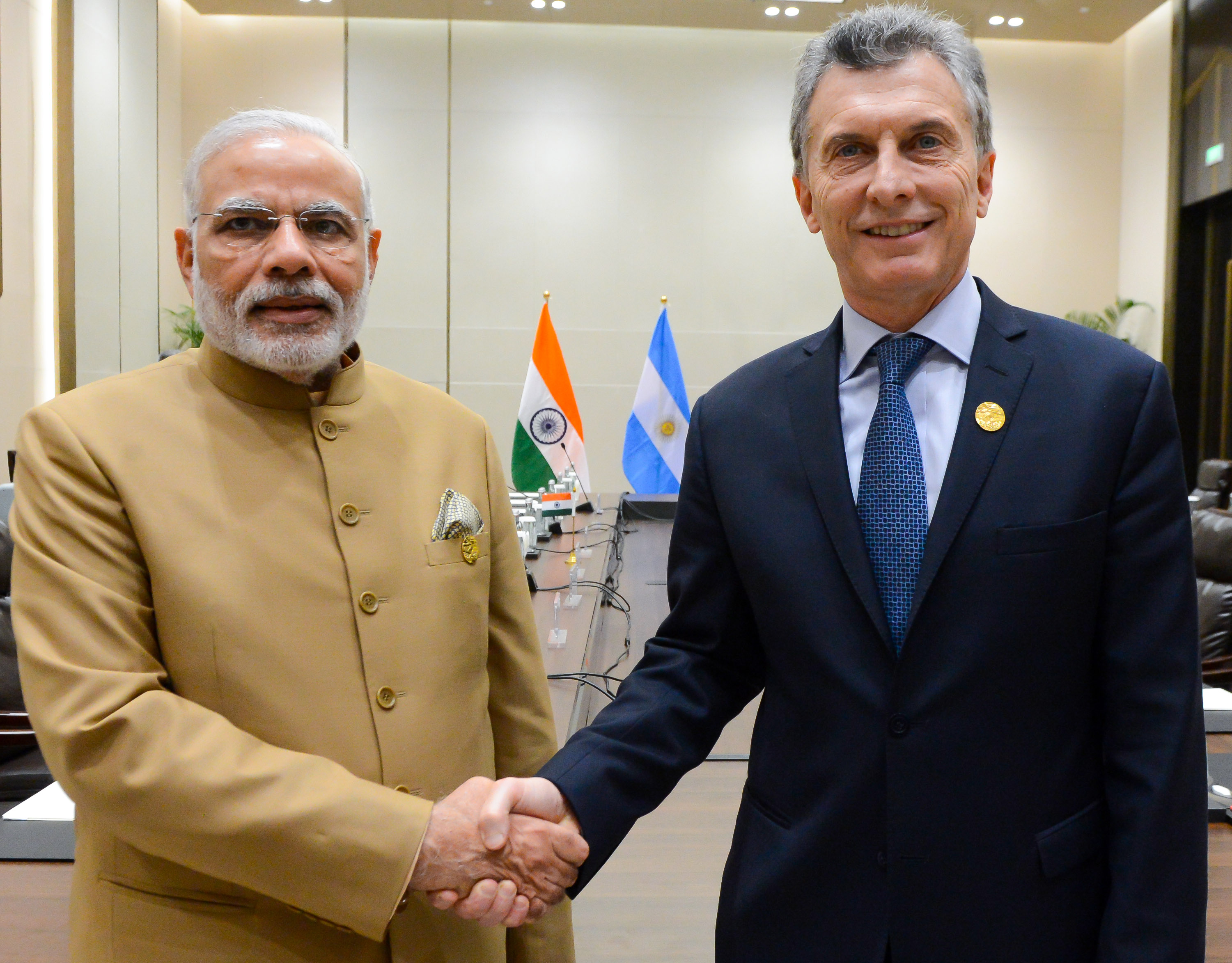 Argentina's president Mauricio Macri with the Prime Minister of India, Narendra Modi.